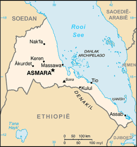 An Afrikaans map of Eritrea.